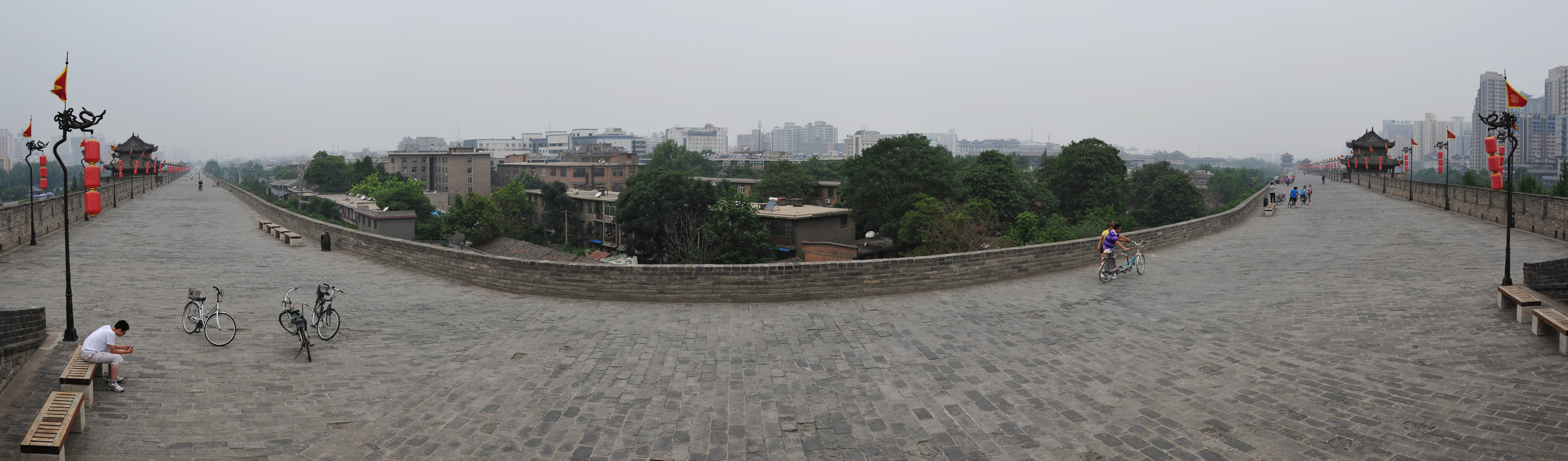 xi'an china historic city wall 2011 tang dynasty ming dynasty panorama